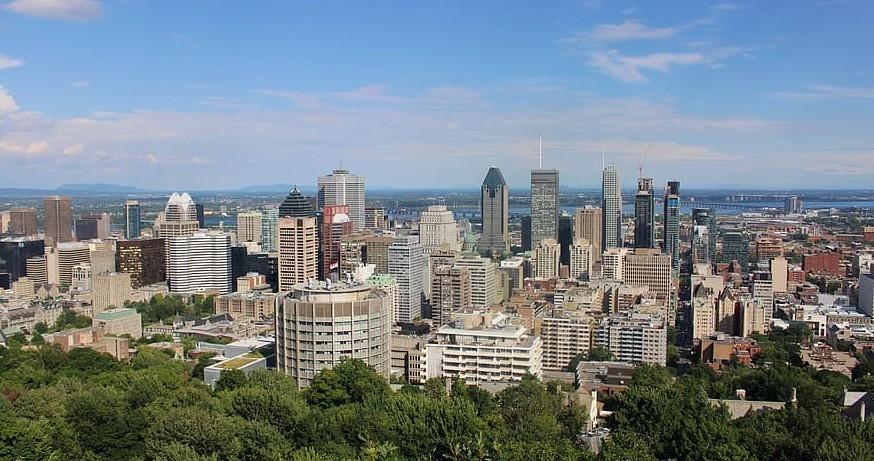 Downtown Montreal as seen from Mount Royal.